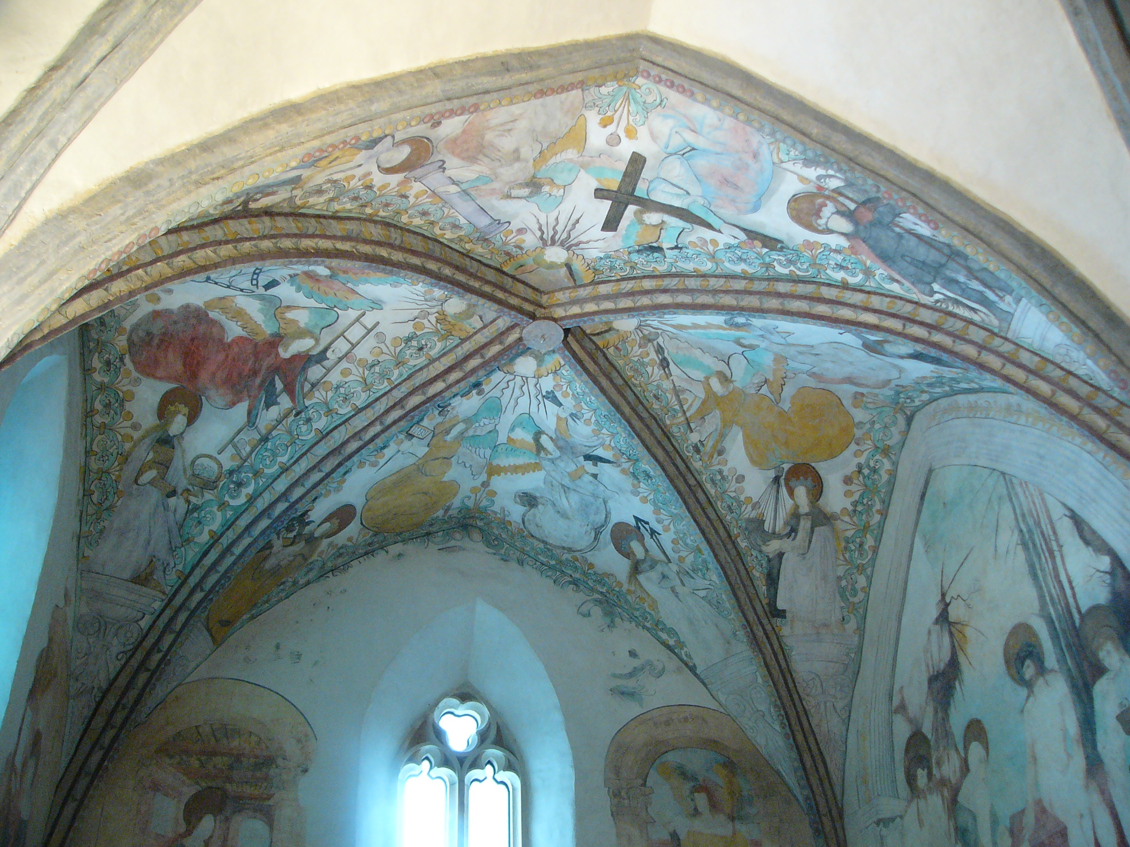 Gothic paintings in Kaple svatého Jana Křtitele chapel in Olomouc (Czech Republic).